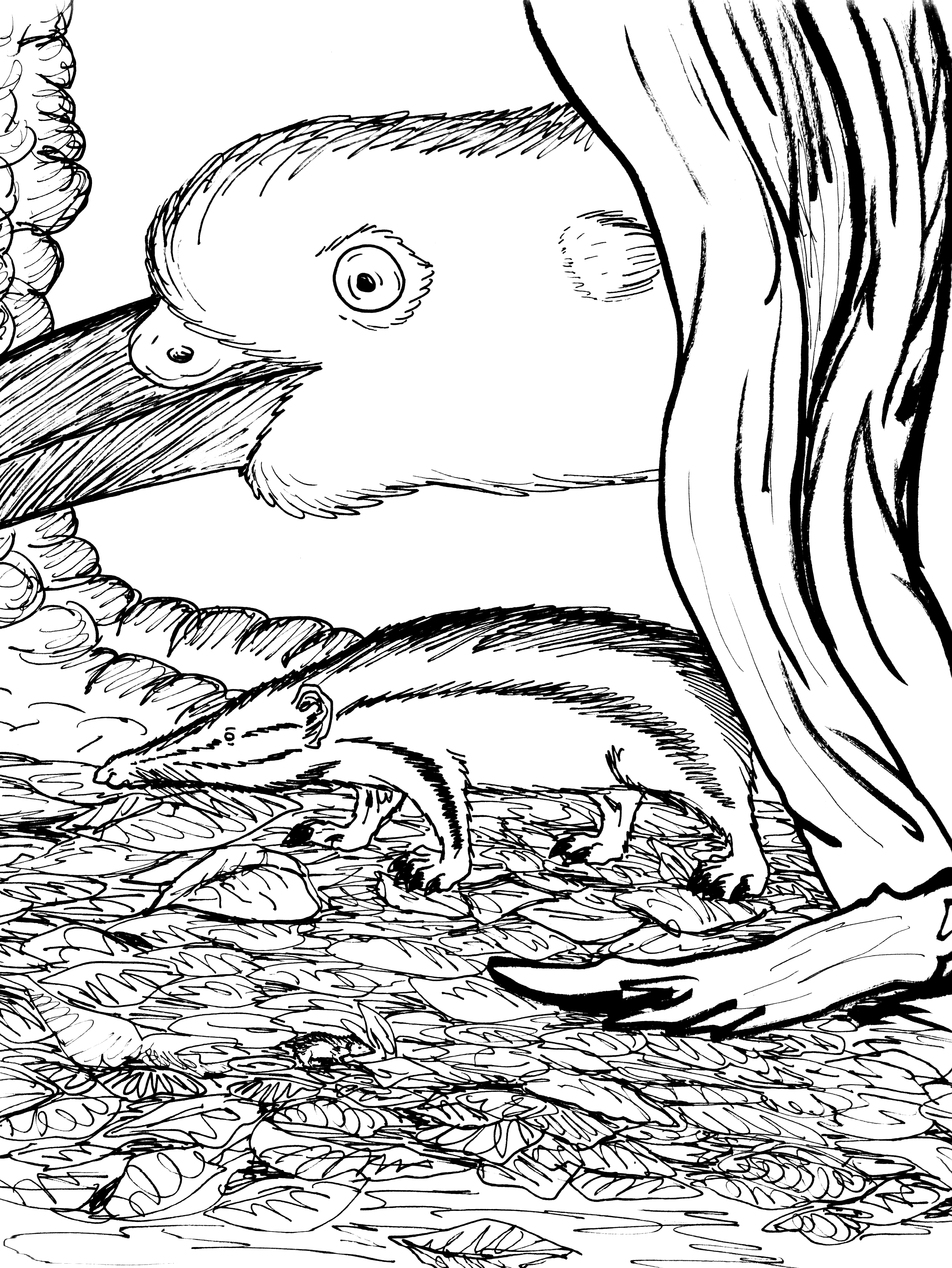 Reconstruction of the mysterious Pleistocene mammal, Plesiorycteropus madagascarensis, as an aardvark-like animal.